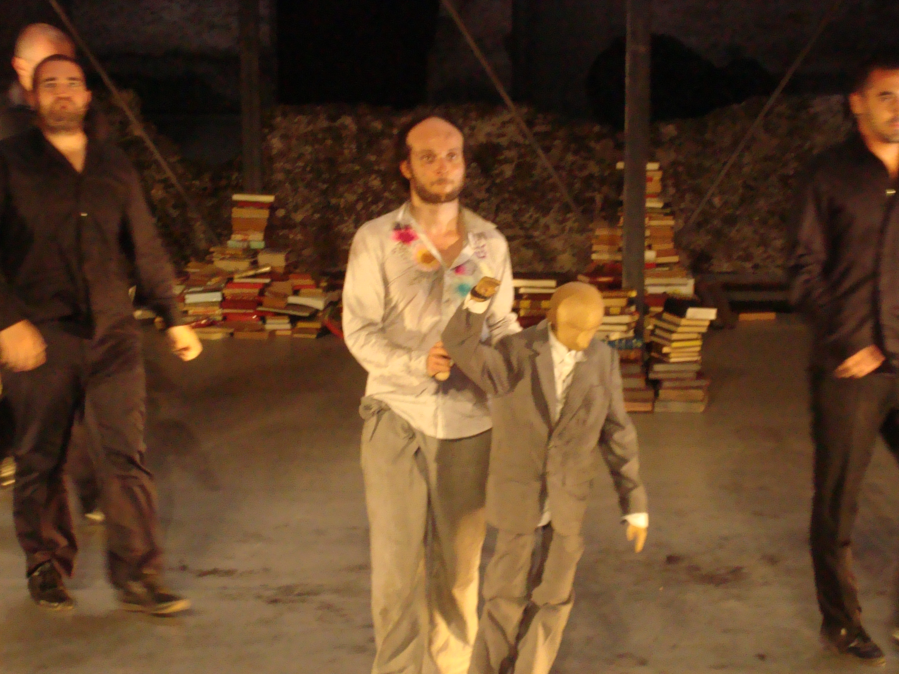 The choreographer Sidi Larbi Cherkaoui at the end of Apocrifu, June 24th 2009, Villa Adriana, Tivoli